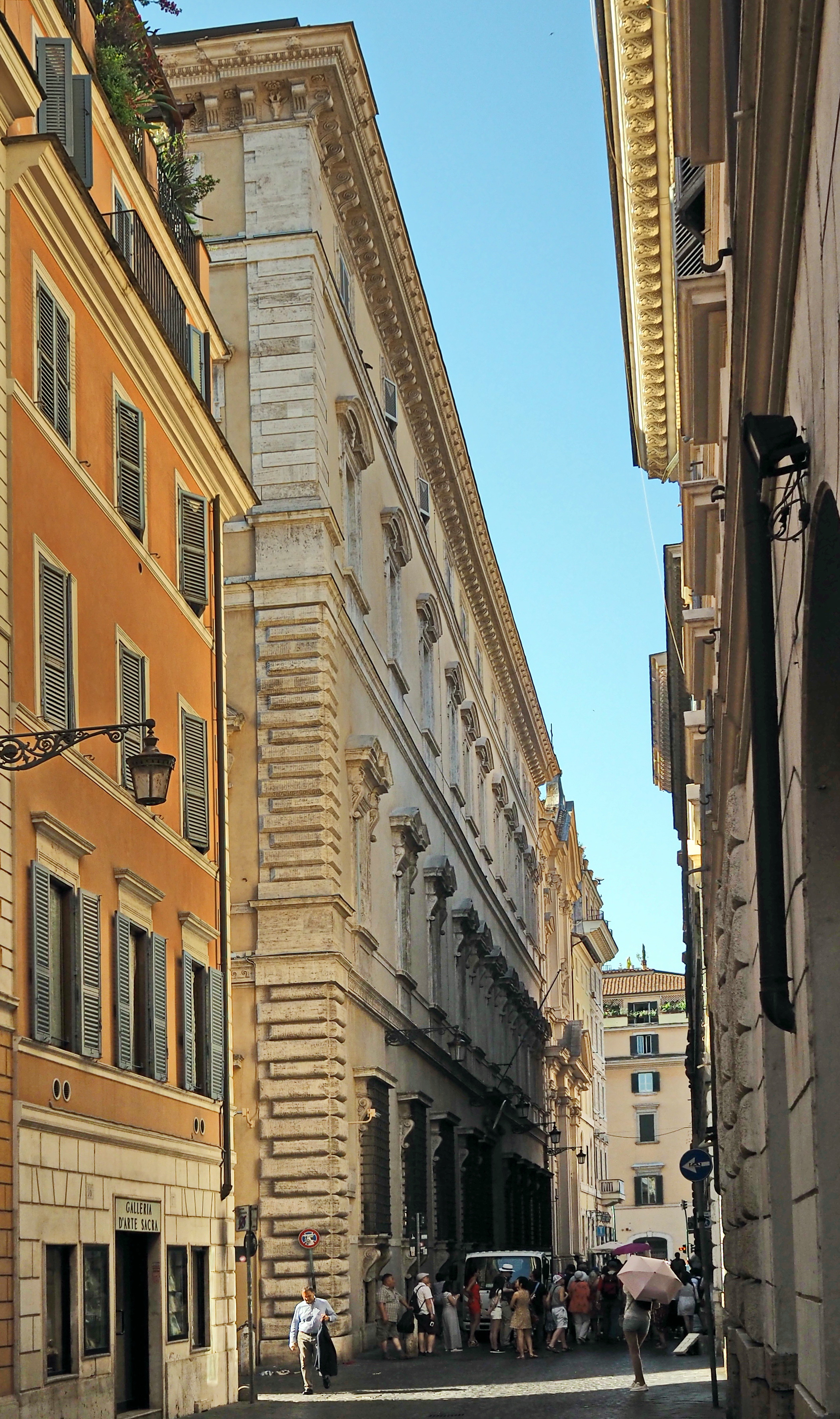 Palazzo Maffei Marescotti (Rome); Via della Pigna